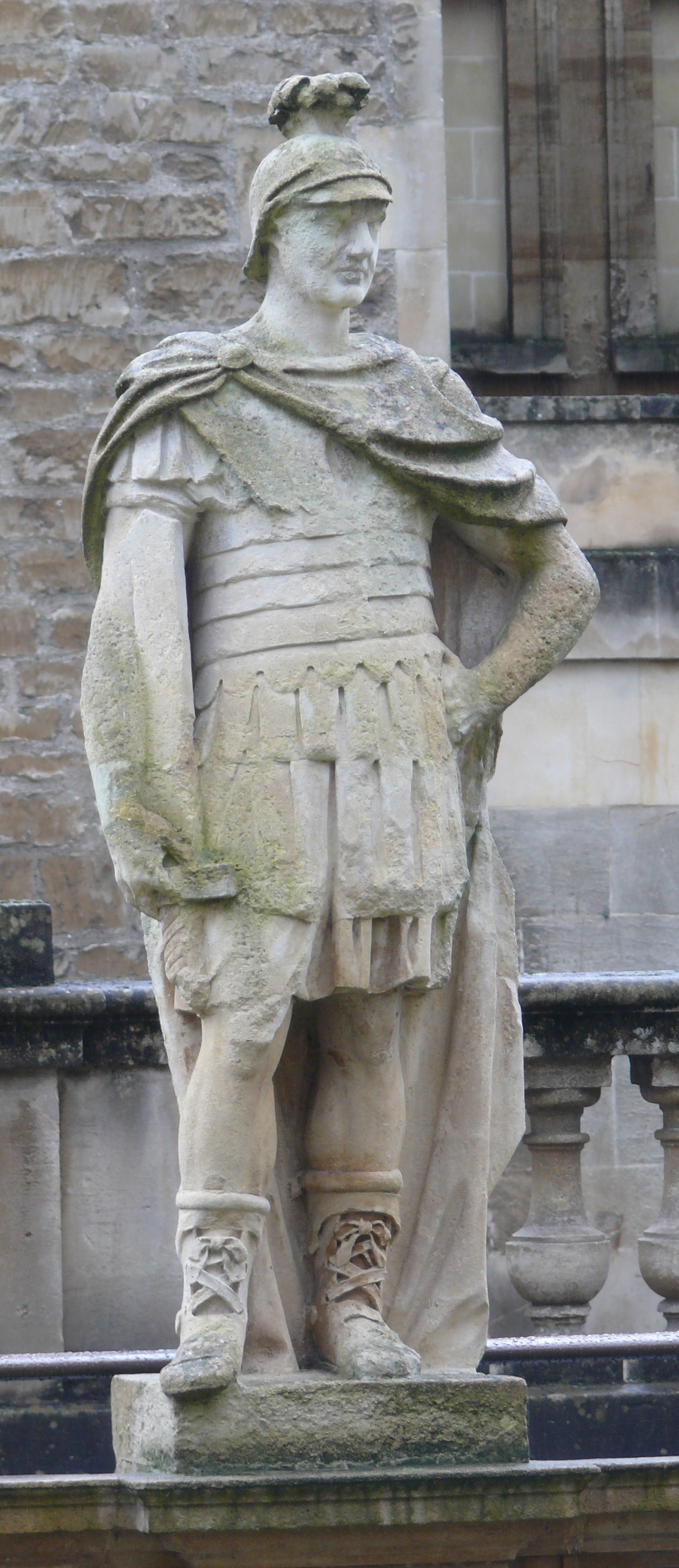 Statue of Publius Ostorius Scapula on the terrace of the Roman Baths (Bath). The Terrace is lined with statues of Roman Governors of Britain, Roman Emperors and military leaders. The statues date to 1894.